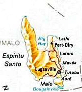 Espiritu Santo island of Vanuatu, from 1989 CIA map of Vanuatu